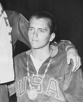 David Theile, Bob Bennett, Rome Olympics